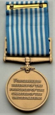 United Nations Service Medal for the Korean war 1950-1953, Reverse